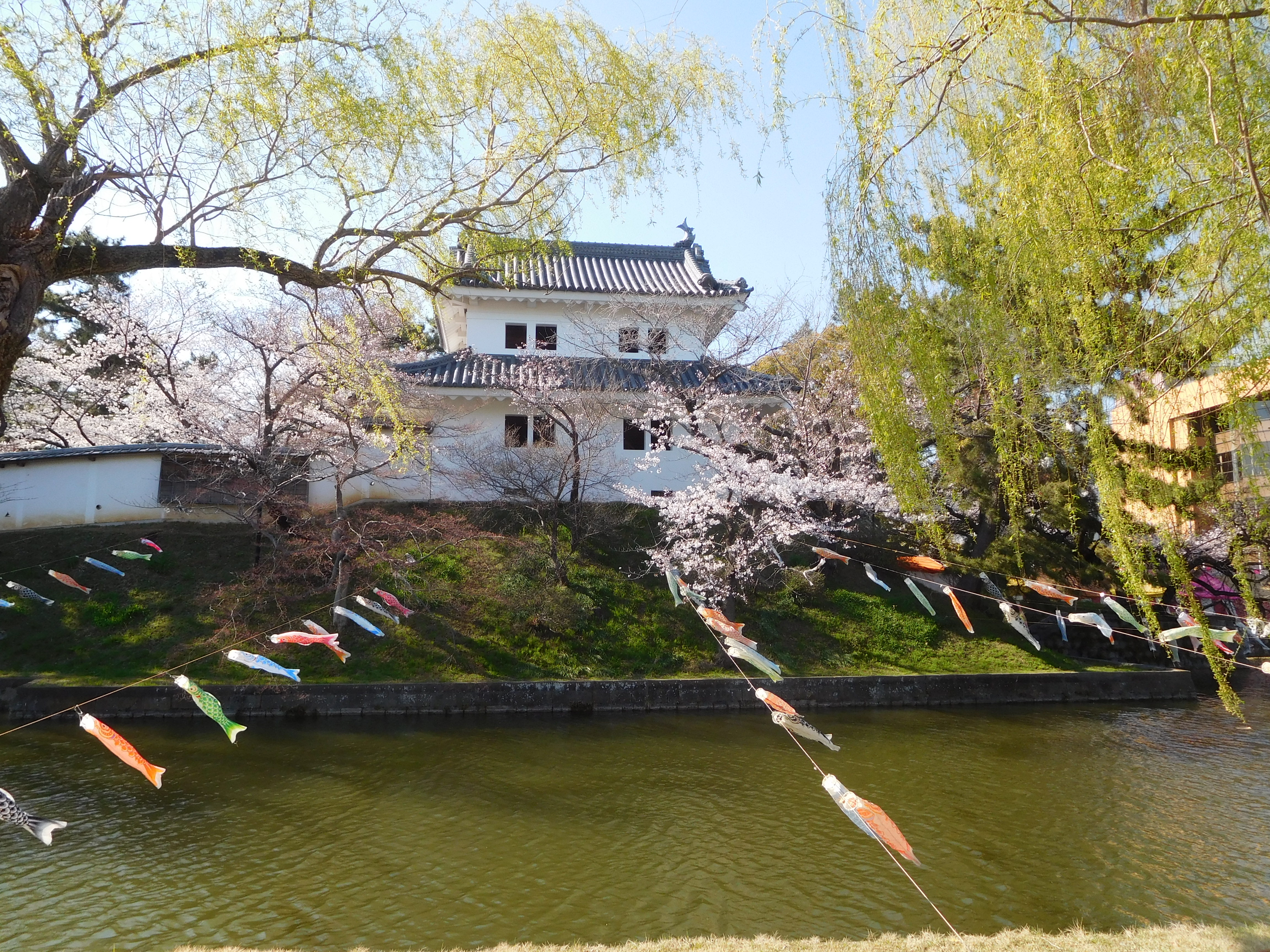 This is the East Turret of Tsuchiura Castle in Tsuchiura, Ibaraki, Japan.